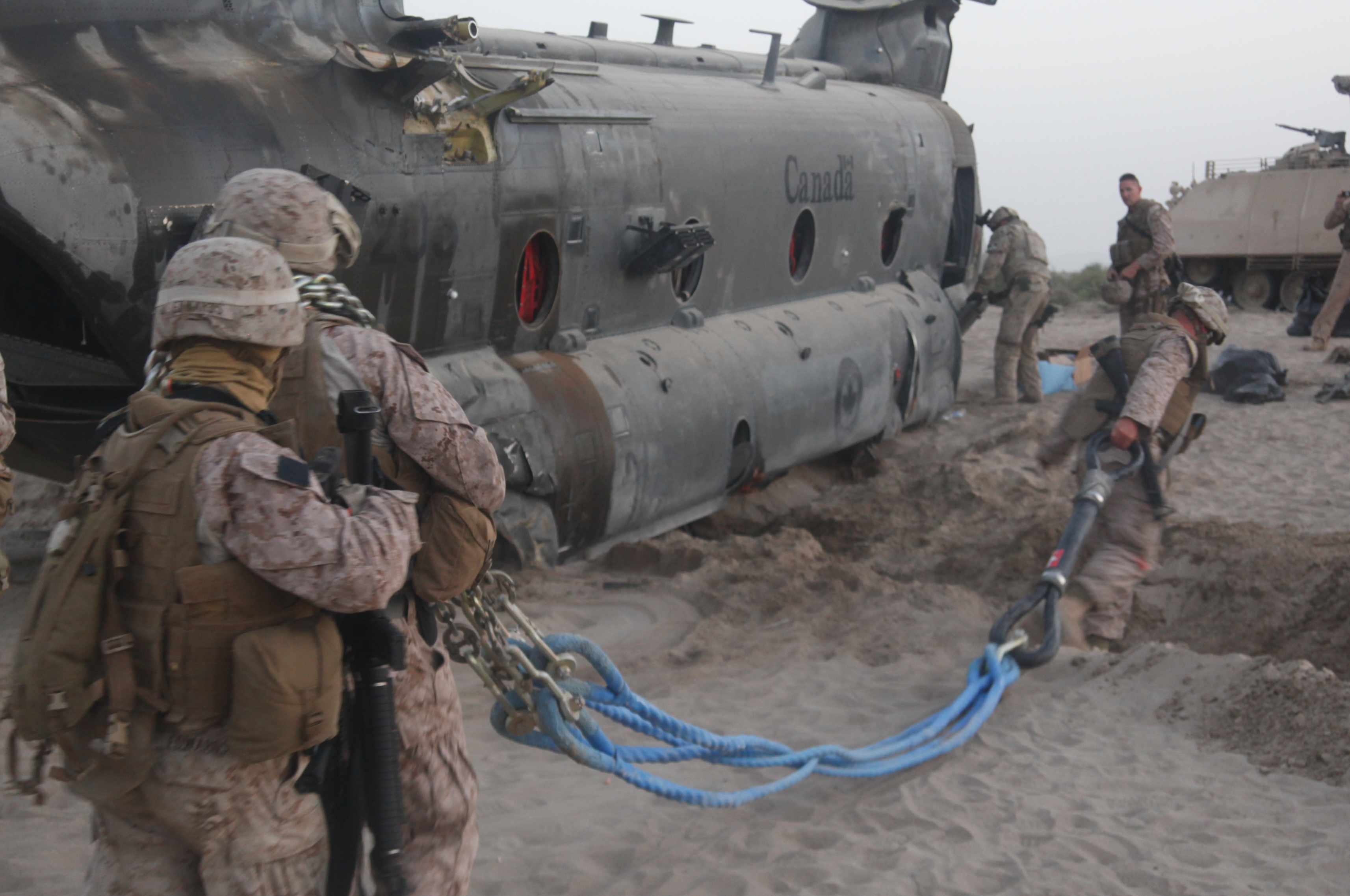 Helicopter support team Marines with 2nd Marine Logistics Group prepare the rigging for a transport of a Canadian Forces CH-47 Chinook helicopter during a tactical recovery of aircraft and personnel mission in Kandahar Province, Afghanistan, May 17. The Marines and Canadian Forces were able to transport the injured aircraft back home safely to Kandahar Airfield, Afghanistan.